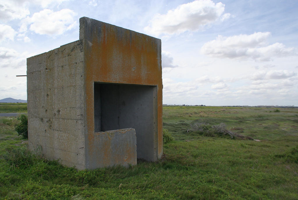 Disused bunkers near Point Wilson - Victoria, Australia